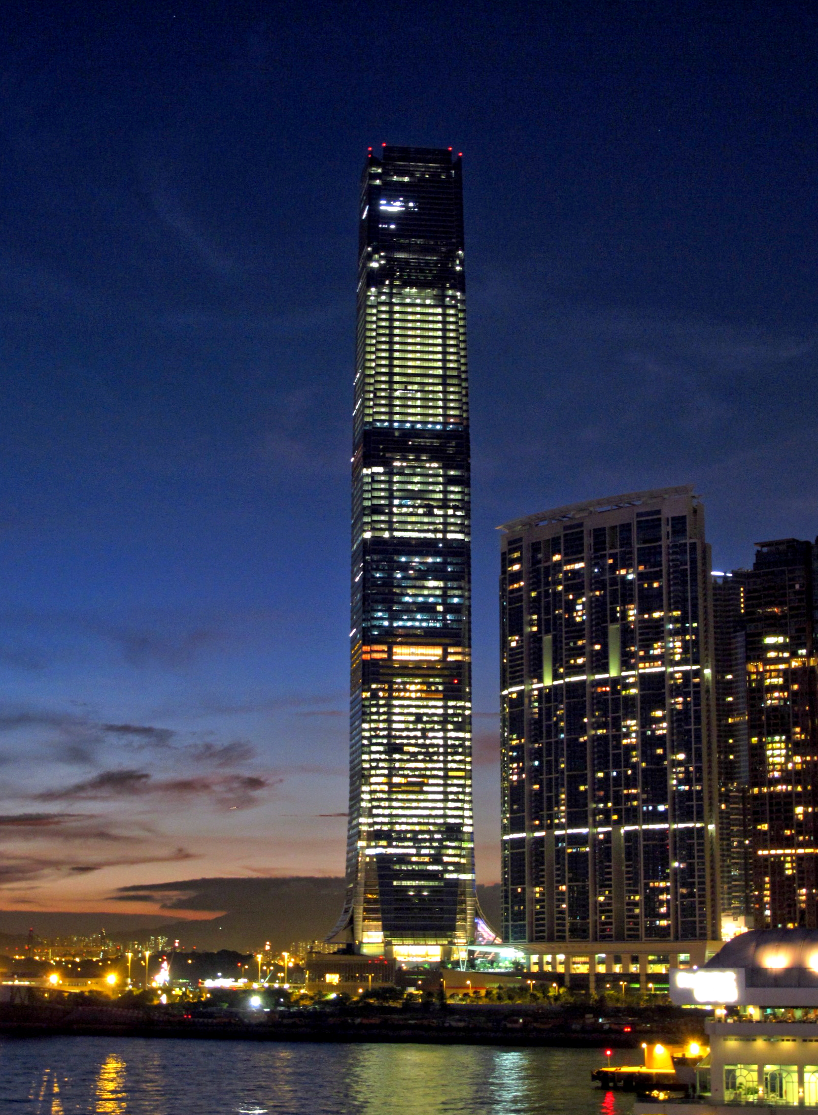 International Commerce Centre 環球貿易廣場